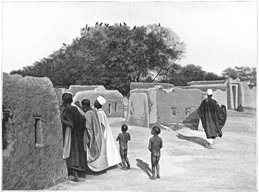 Streets of the old city of Zinder, Niger 1906 L. Roserot de Melin In het gebied van het Tsadmeer met de expeditie Tilho De Aarde en haar volken, 1910 (Holland) Nedersaksies: Talrijke gieren reinigen de straten. L. Roserot de Melin In het gebied van het Tsadmeer met de expeditie Tilho De Aarde en haar volken, 1910